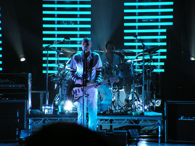 The Smashing Pumpkins 2007-05-22 Le Grand Rex Paris, France first show back since 2000